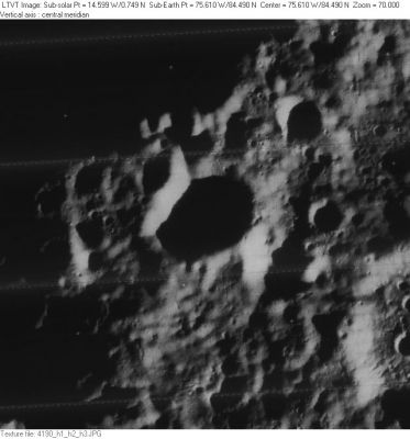 Grignard is at the center of this aerial view with the direction towards the Moon's north pole up. The dark shadow in the upper left is the floor of Hermite. None of the other features in the field are named.